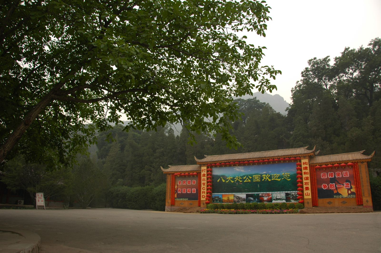 The entrance sign to Badachu Park in Beijing, China.